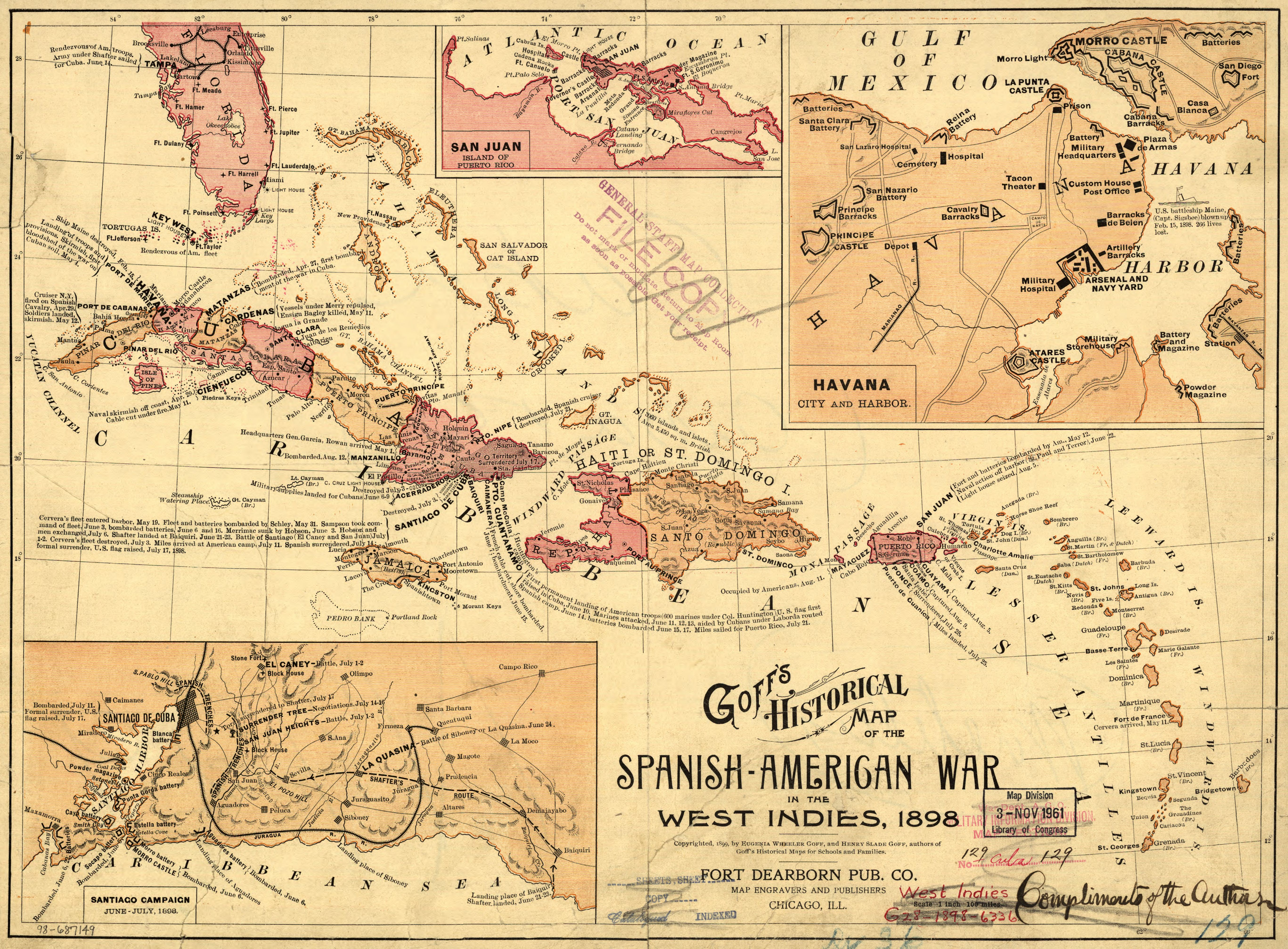 Insets: San Juan, island of Puerto Rico.--Havana, city and harbor.--Santiago campaign June-July 1898. Available also through the Library of Congress web site as a raster image.